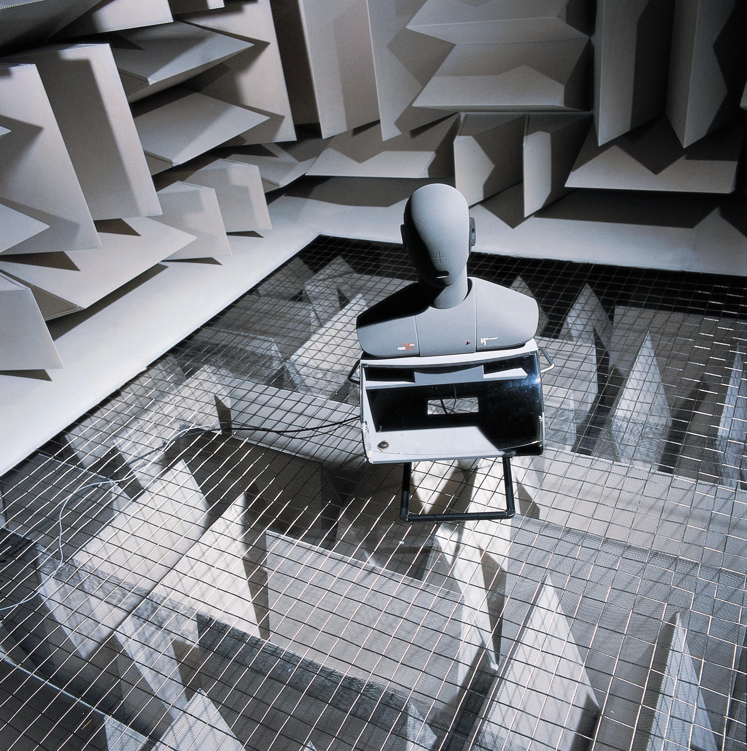 A Full Anechoic chamber.